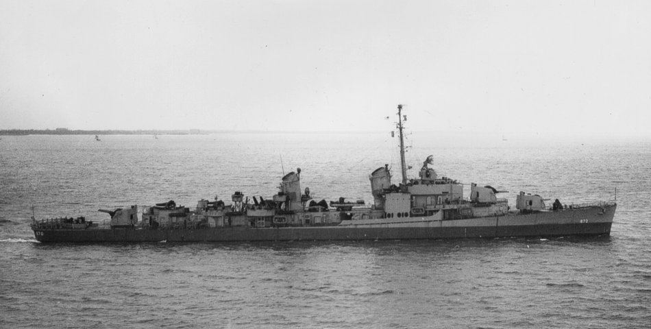 The U.S. Navy destroyer USS Fechteler (DD-870) on 4 April 1946, four weeks after her commissioning. She is painted in wartime Camouflage Measure 22.